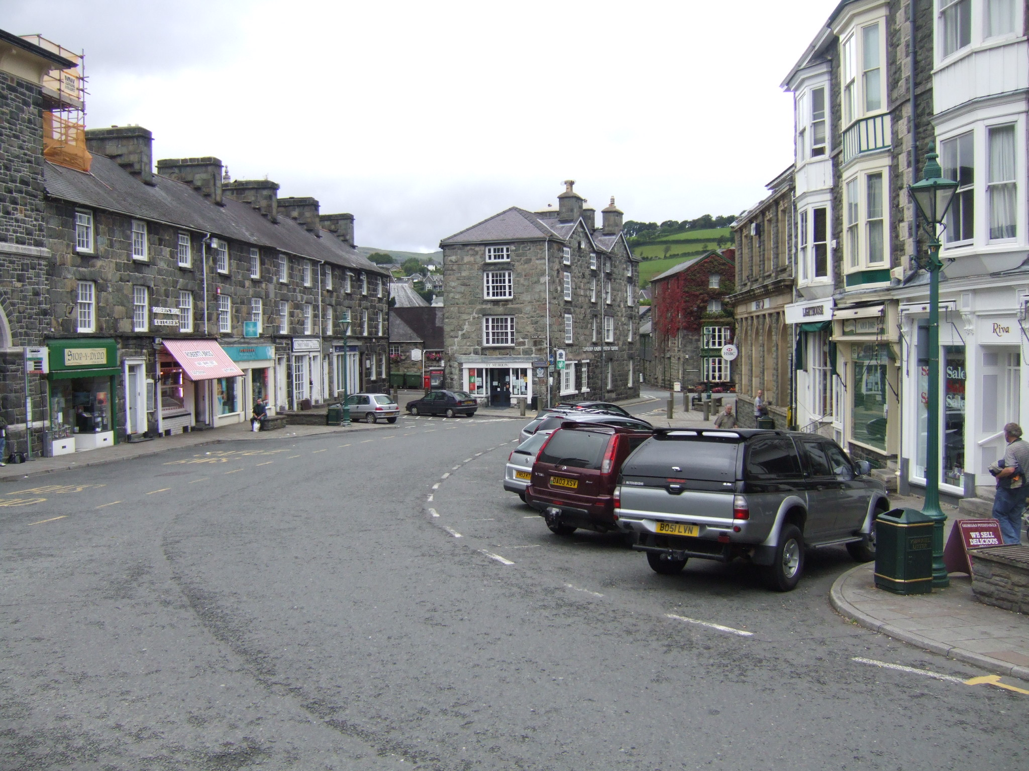 A shot of the centre of Dolgellau